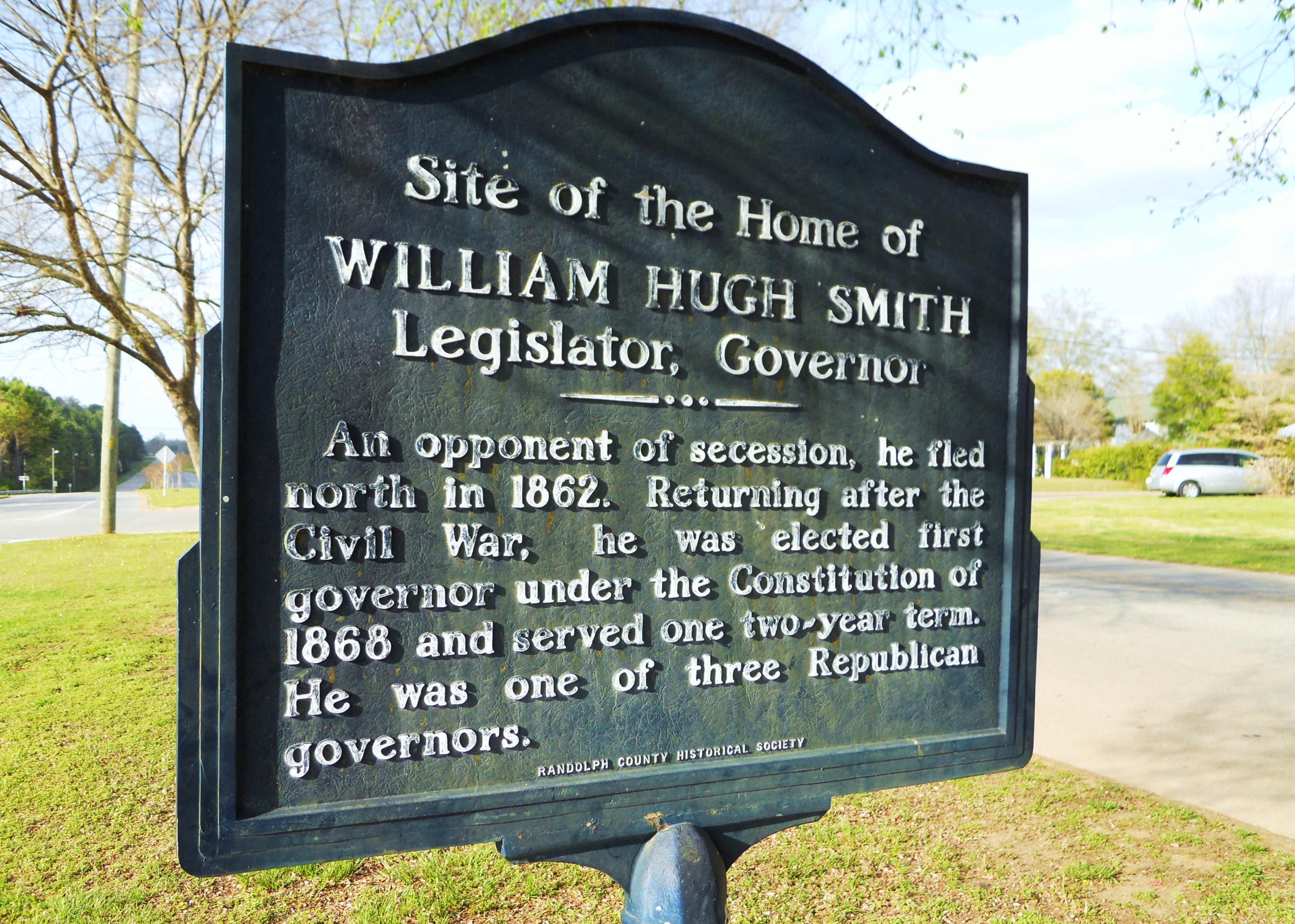 This is a photograph of the historic marker which marks the site of the former home of Alabama's 21st governor, William Hugh Smith. The marker is located along N. Main Street (U.S. Route 431 in Wedowee, Alabama. Smith was the first Republican governor of Alabama and served from 1868-1870, the first years of the Reconstruction Era of the United States.